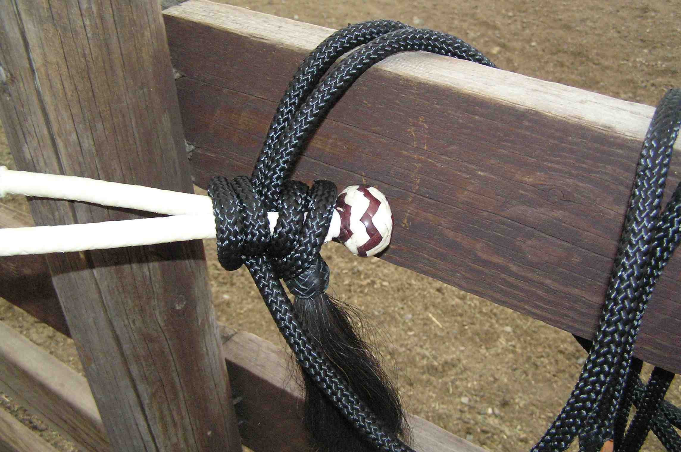 Close up of a Mecate knotted onto a bosal to make a hackamore for a horse. This particular mecate is made of synthetic fiber, a traditional mecate is made of horsehair. This style is usually used for show, not on a working outfit